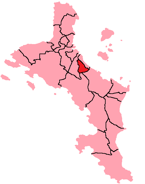 Map of Mahe Island, Seychelles showing Les Mamelles District; created with the GIMP. Made by User:Acntx.